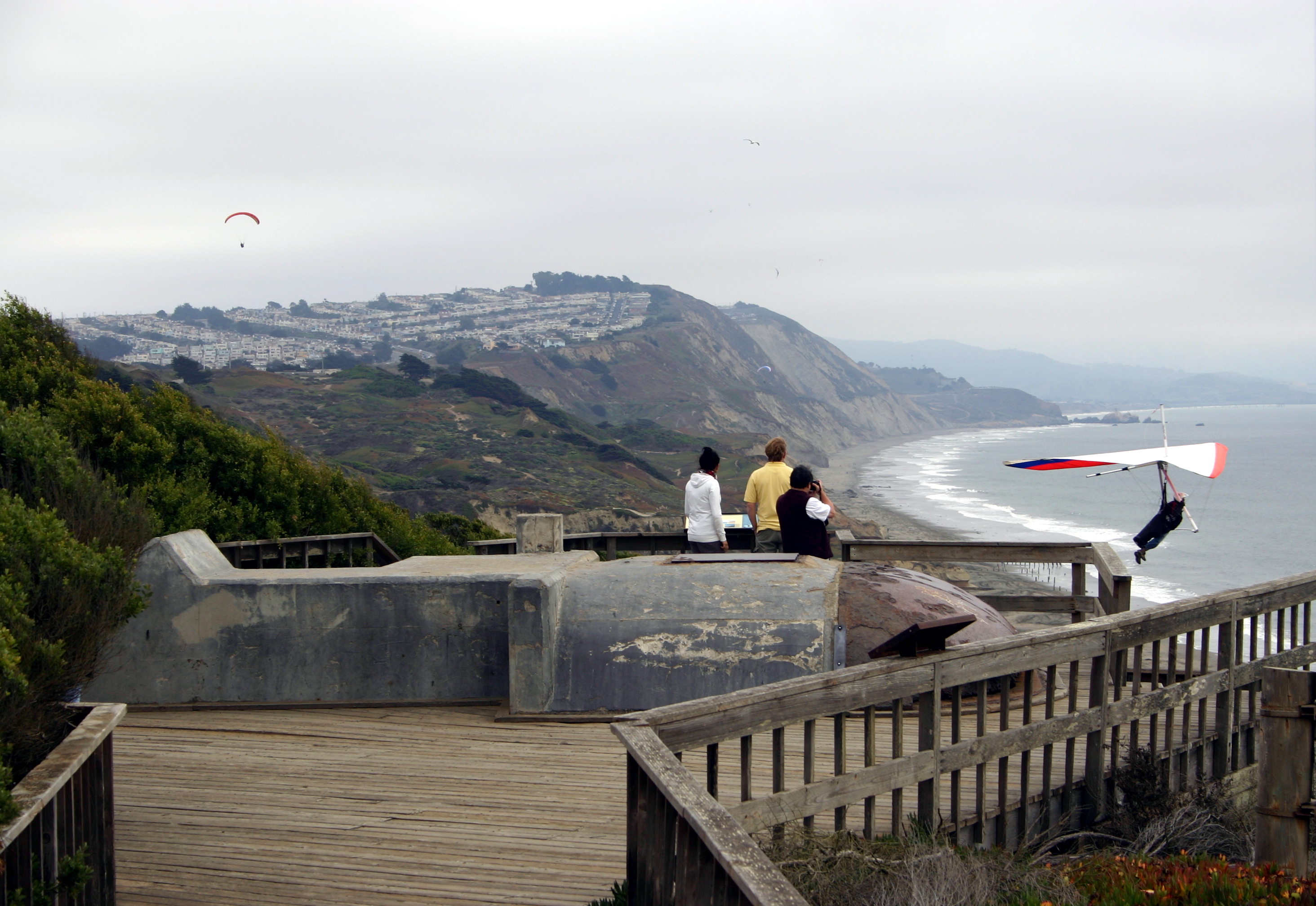 View of Funston launch from the scenic overlook (formerly Base End Station B3S3/B5S5), Fort Funston, Golden Gate National Recreation Area, San Francisco, California